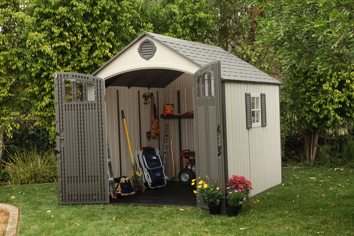 Lifetime Storage Shed